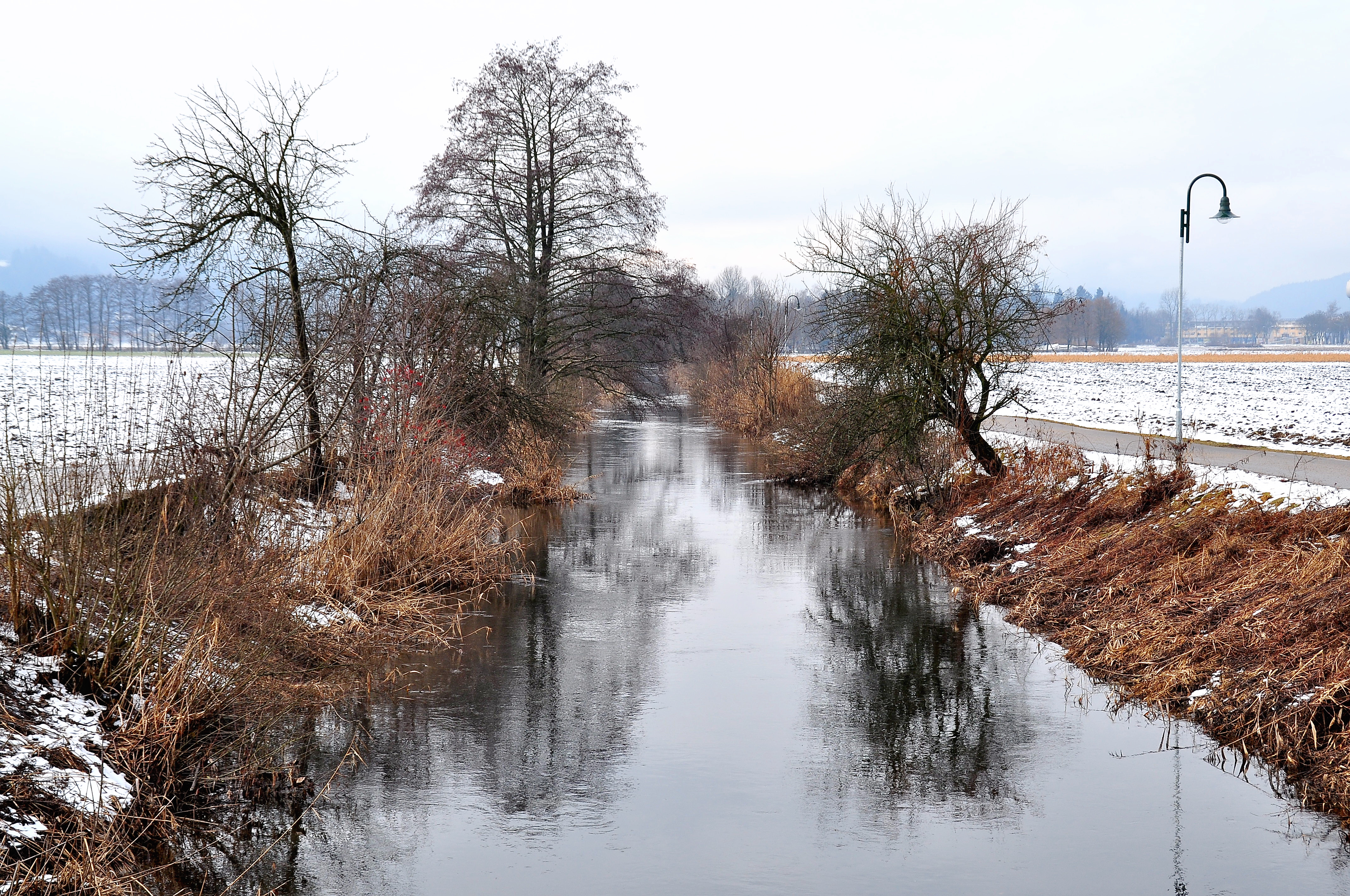 Schleusenweg as cycle lane close to the Glanfurt river west of the Waidmannsdorfer Strasse in the 12th district "Sankt Martin-Waidmannsdorf" of the Carinthian capital Klagenfurt, Carinthia, Austria